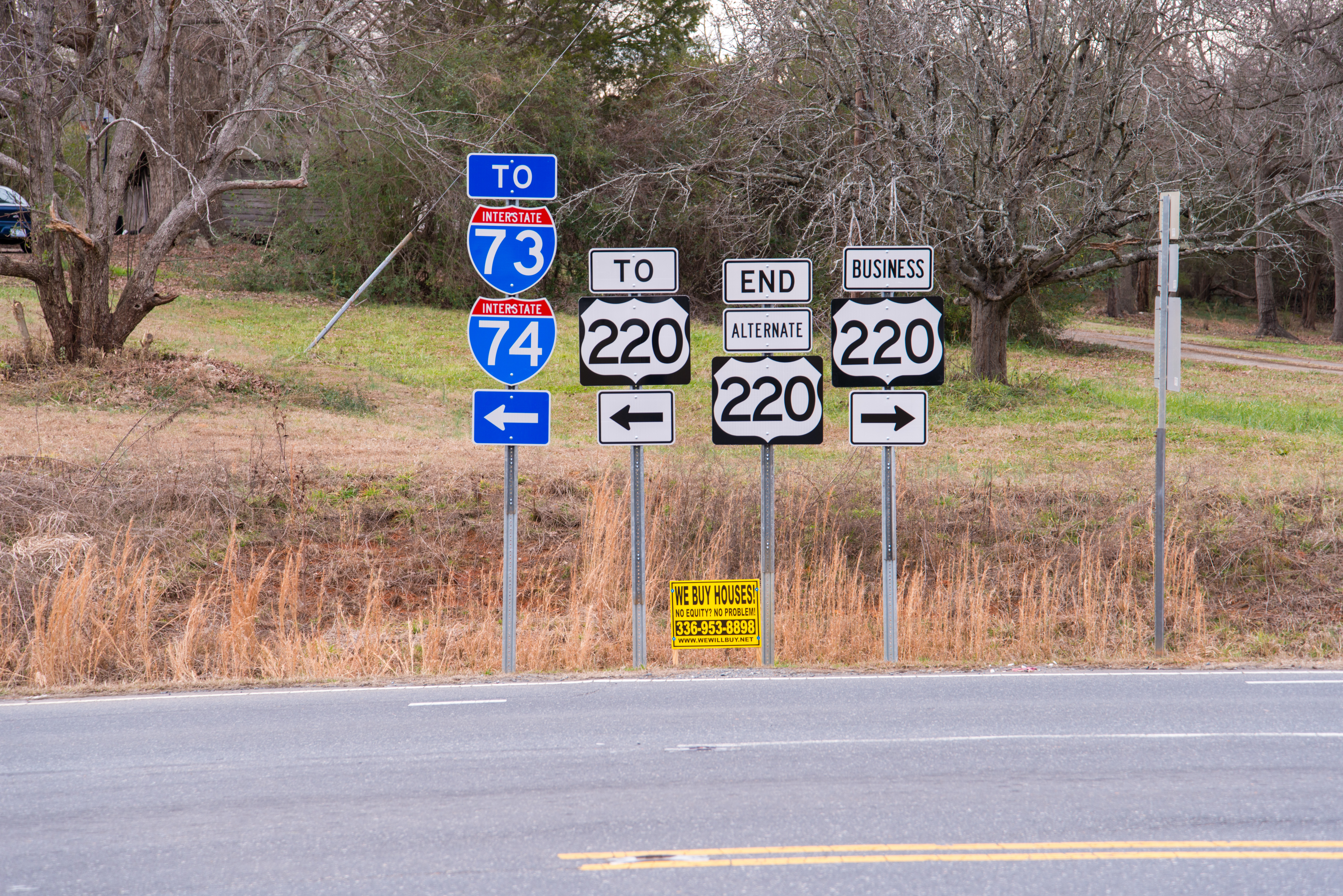 U.S. Route 220 Alternate end and U.S. Route 220 Business near Ulah, North Carolina. Connects to nearby Interstate 73/Interstate 74/U.S. Route 220.